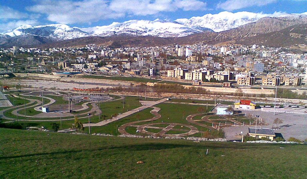 yasuj city